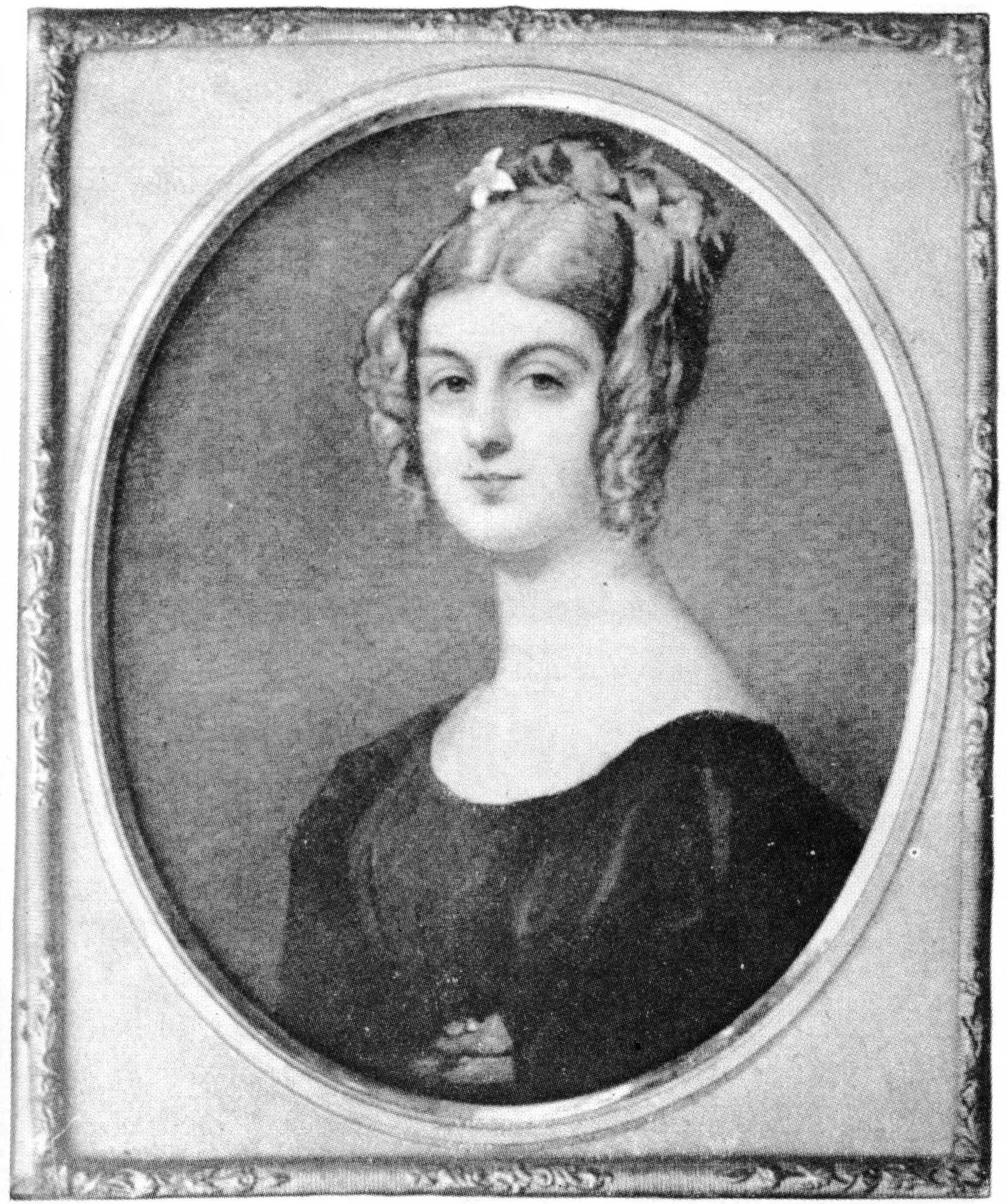 Georgiana Molloy, Western Australian Botanical collector